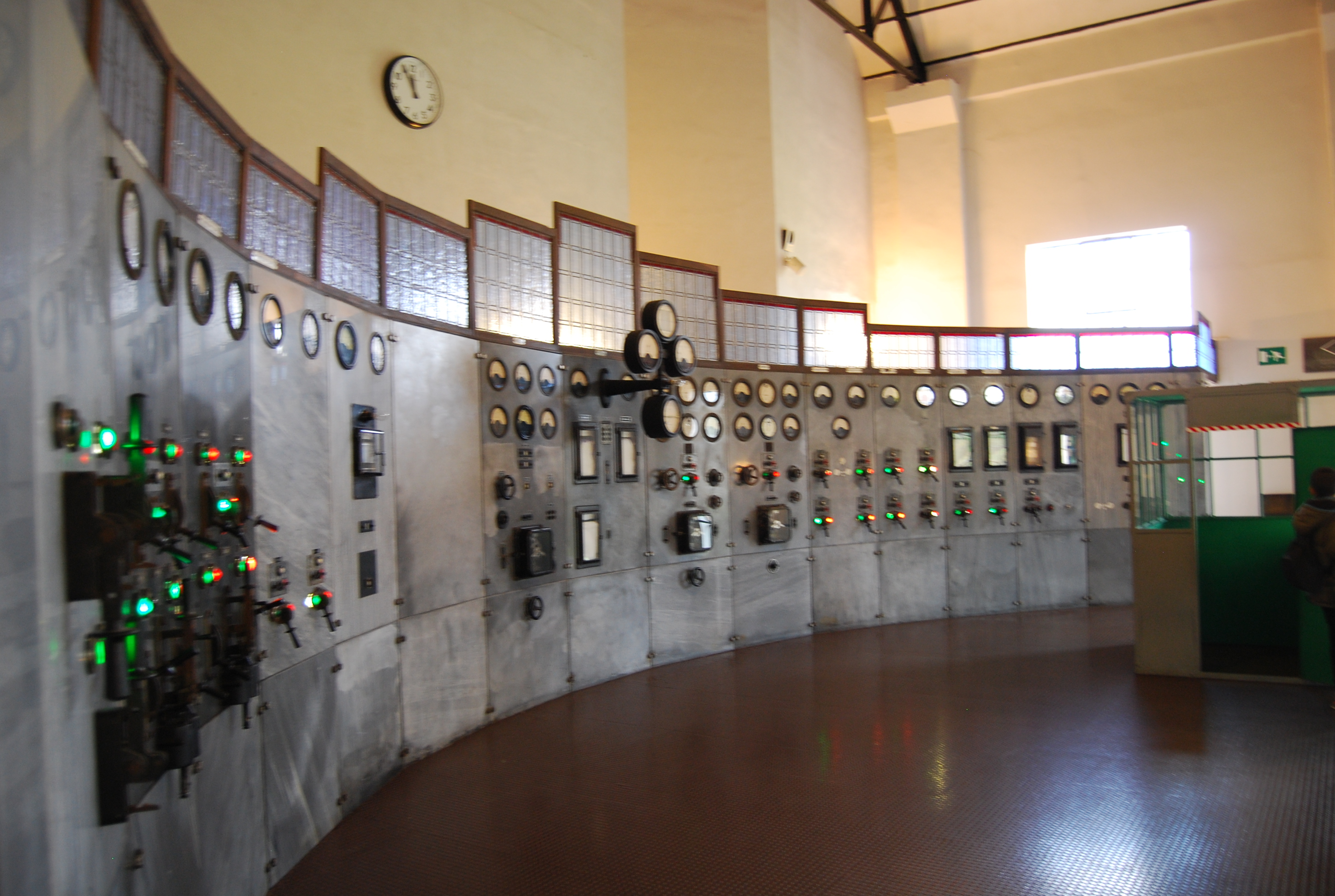 Control room in the MSP power plant in Ponferrada (Spain)